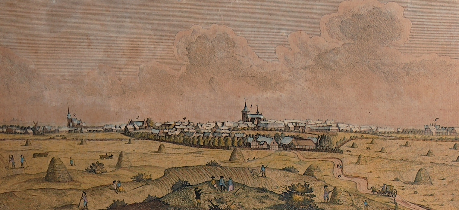 The market town Slagelse seen from the south, depicted by Johan Jacob Bruun